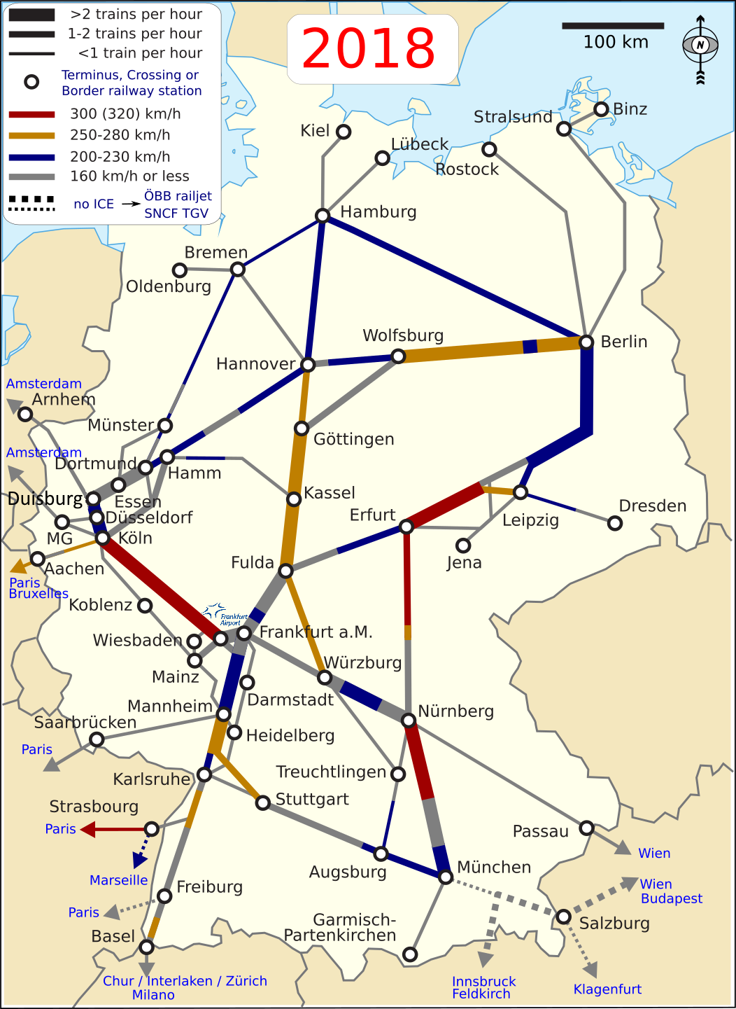 Map of the German ICE rail system, showing long-distance rail lines served by ICE trains. Shown are not connections but rather the used capacity and maximum speed of all sections. The map does include official ICE lines exclusively served by ÖBB railjet, the SBB ECE and by the SNCF TGV.